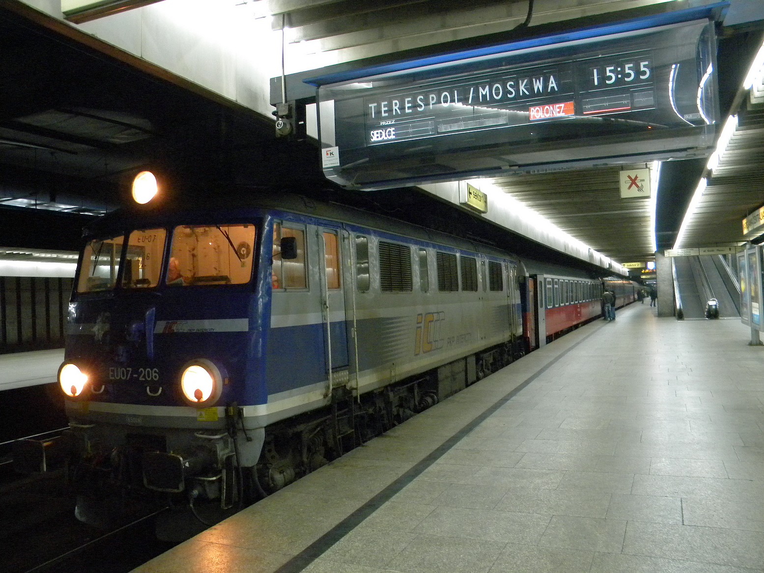 "Polonez" train departing Warszawa Centralna for Moscow with Russian cars.